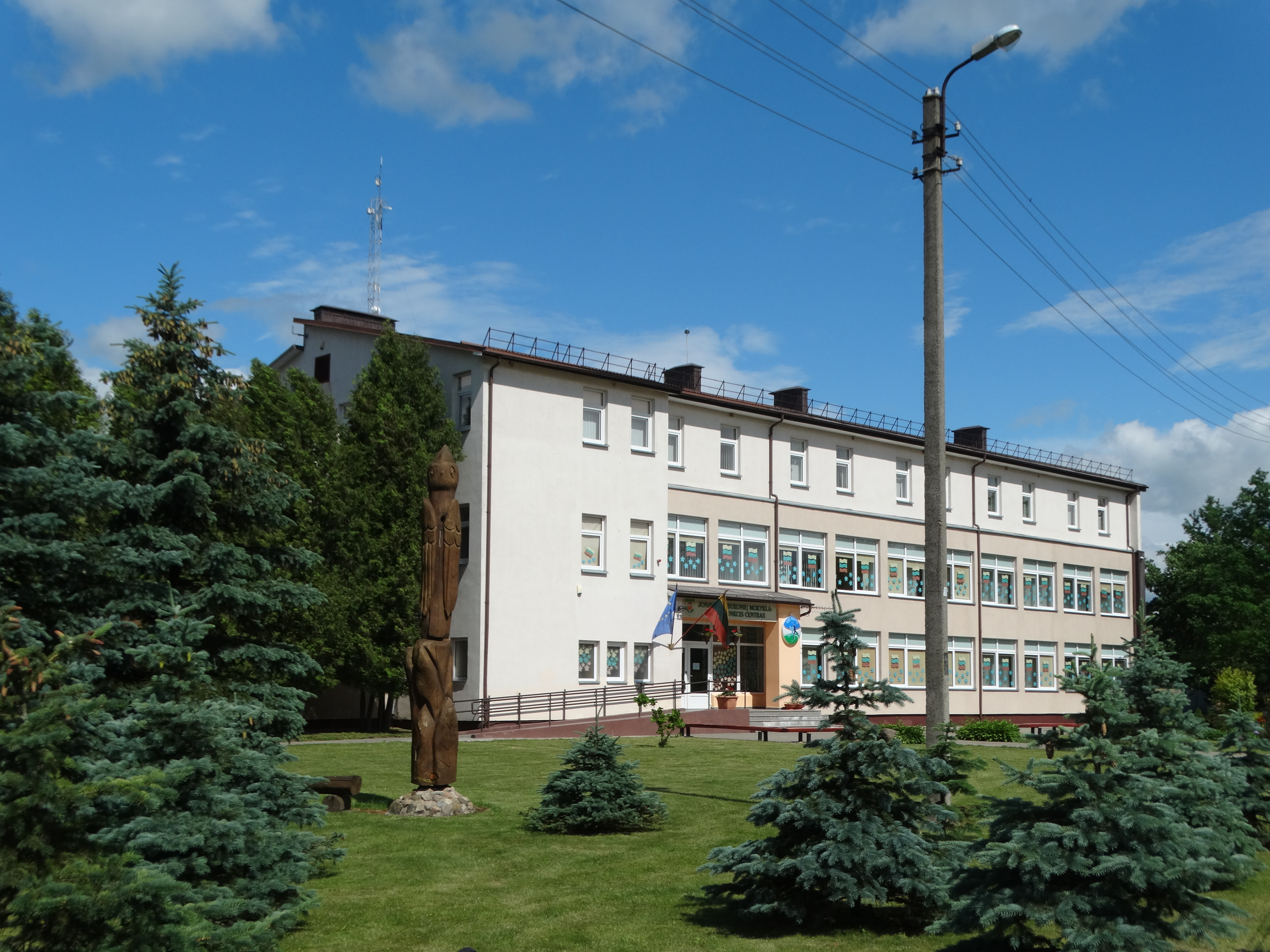 School–multifunction centre, Bukonys, Jonava district, Lithuania